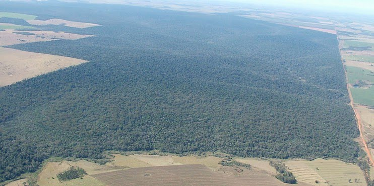 Aerial view of Perobas Biological Reserve in Paraná State, Brazil. Atlantic Forest ecoregion flora (Mata Atlântica).